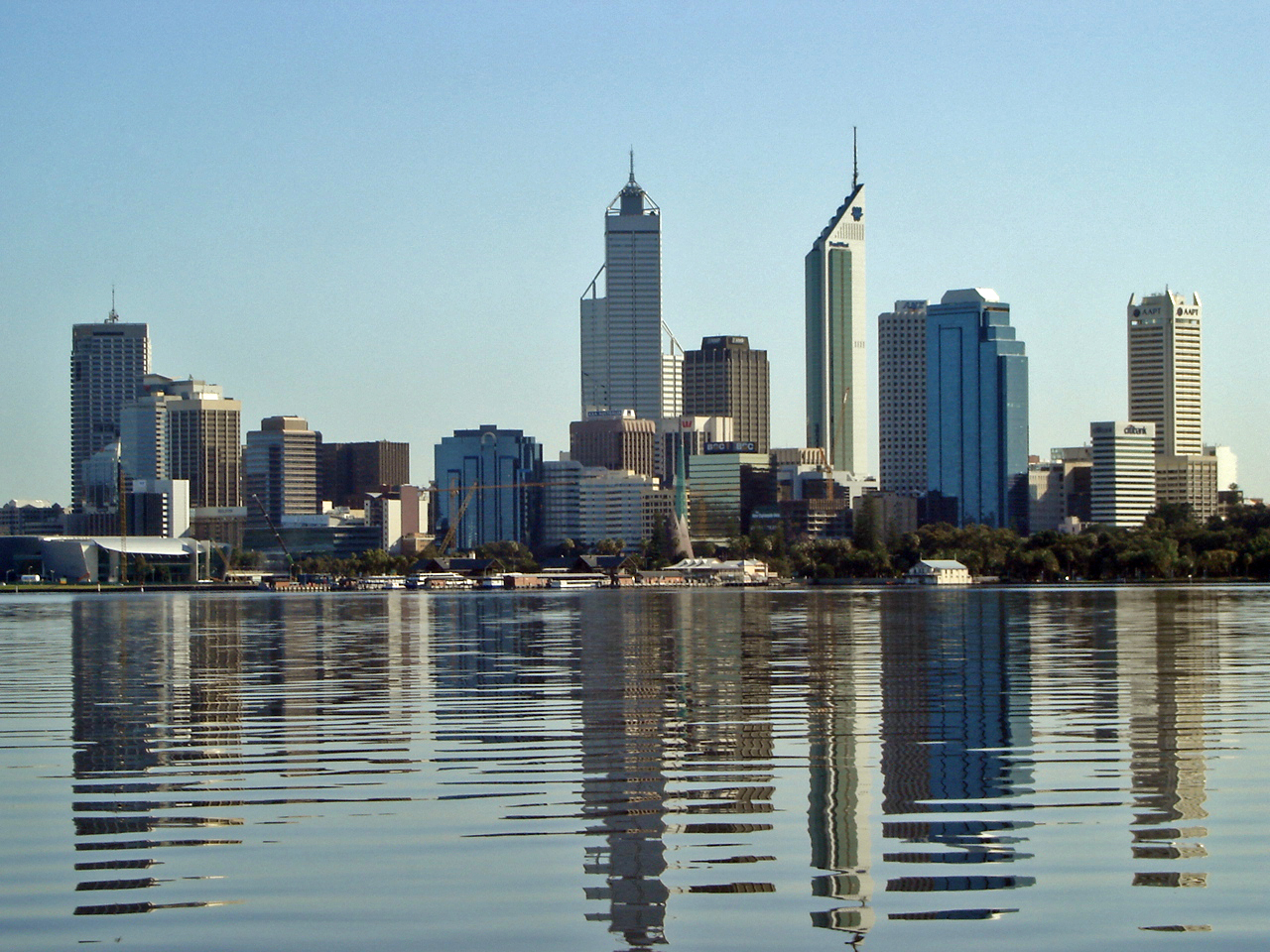 The Skyline of Perth, Western Australia. It was taken by me in August 2005.